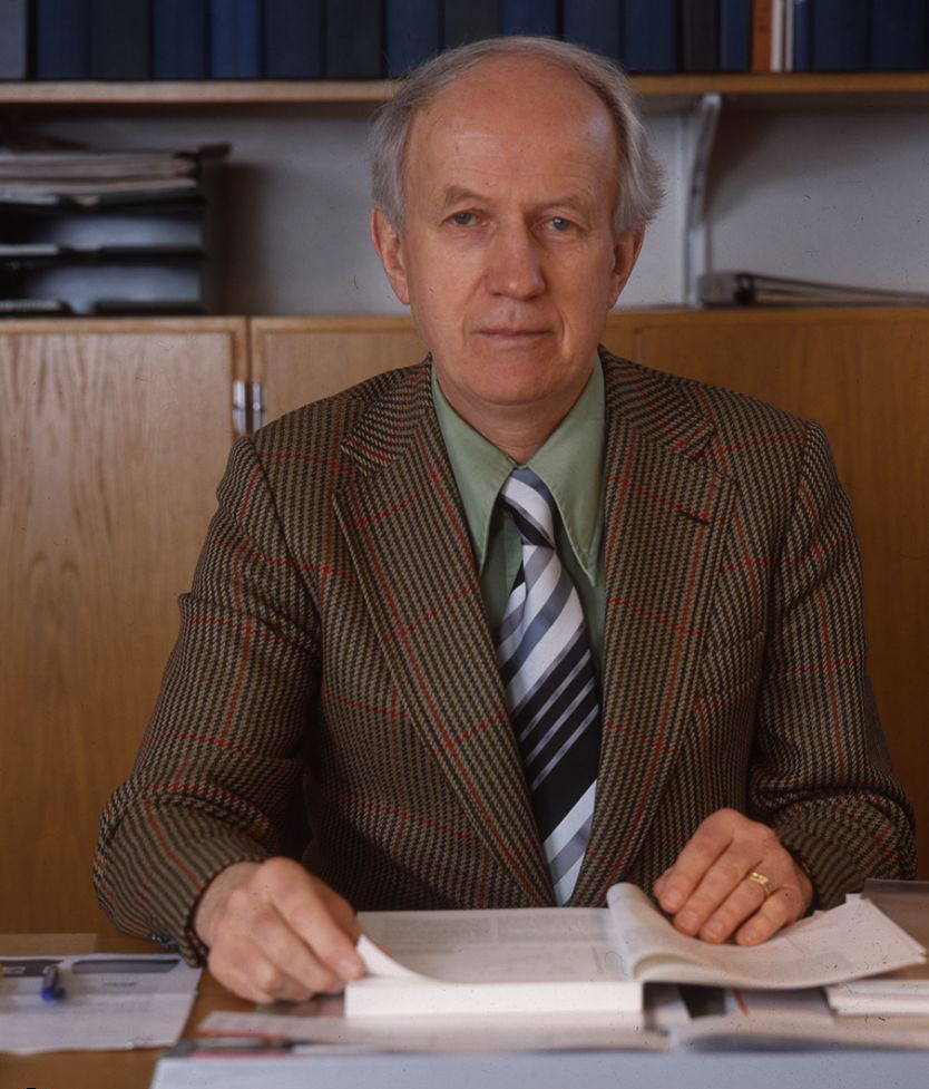 Kurt Lidén 1915-1987 Swedish Professor, Medical physics, Lund University, Sweden. (cropped)